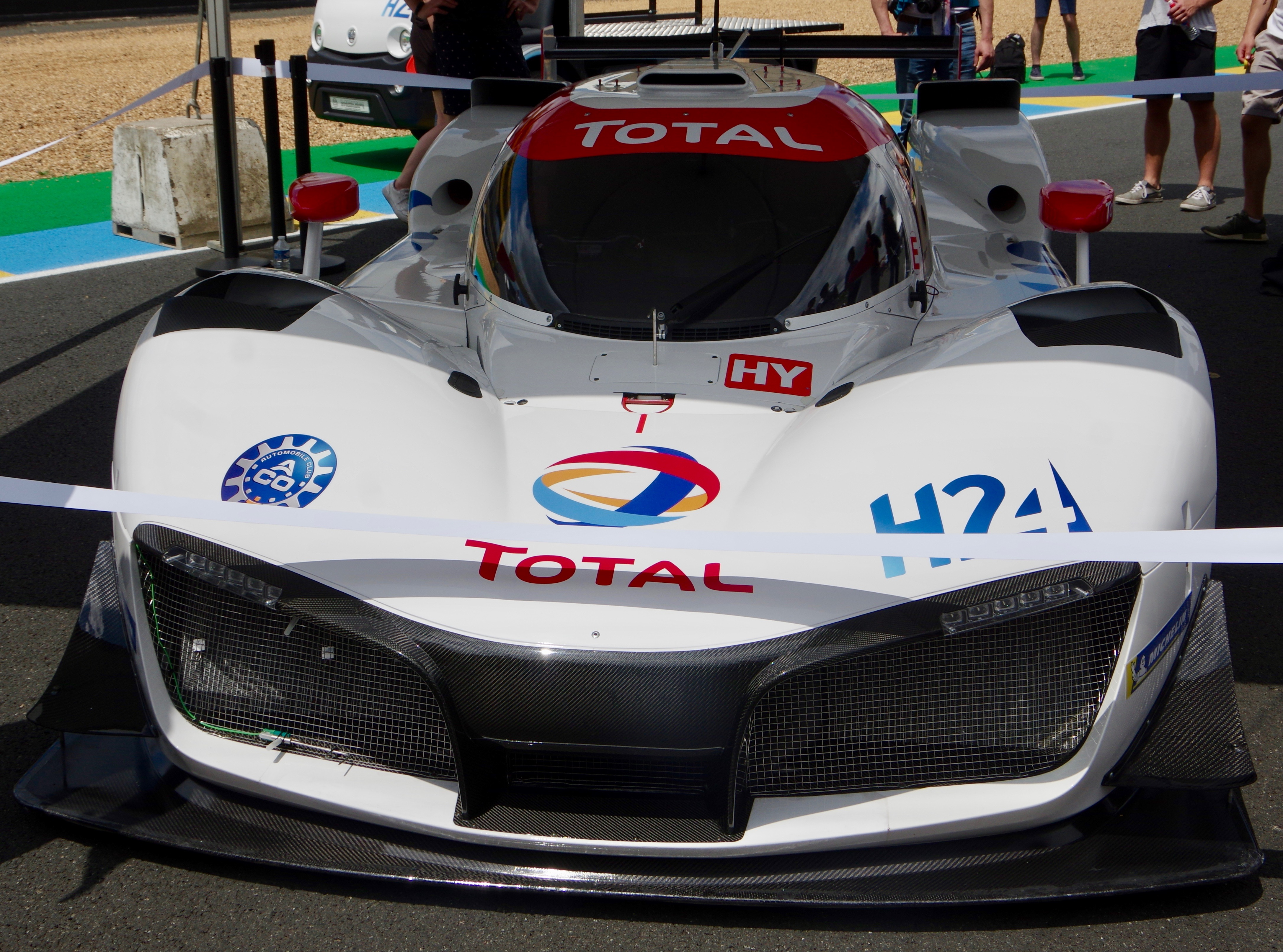 The aim of the project is to have a hydrogen powered car entered at Le Mans 2024 Le Mans 24 Hours 2019 - The Pit Walk